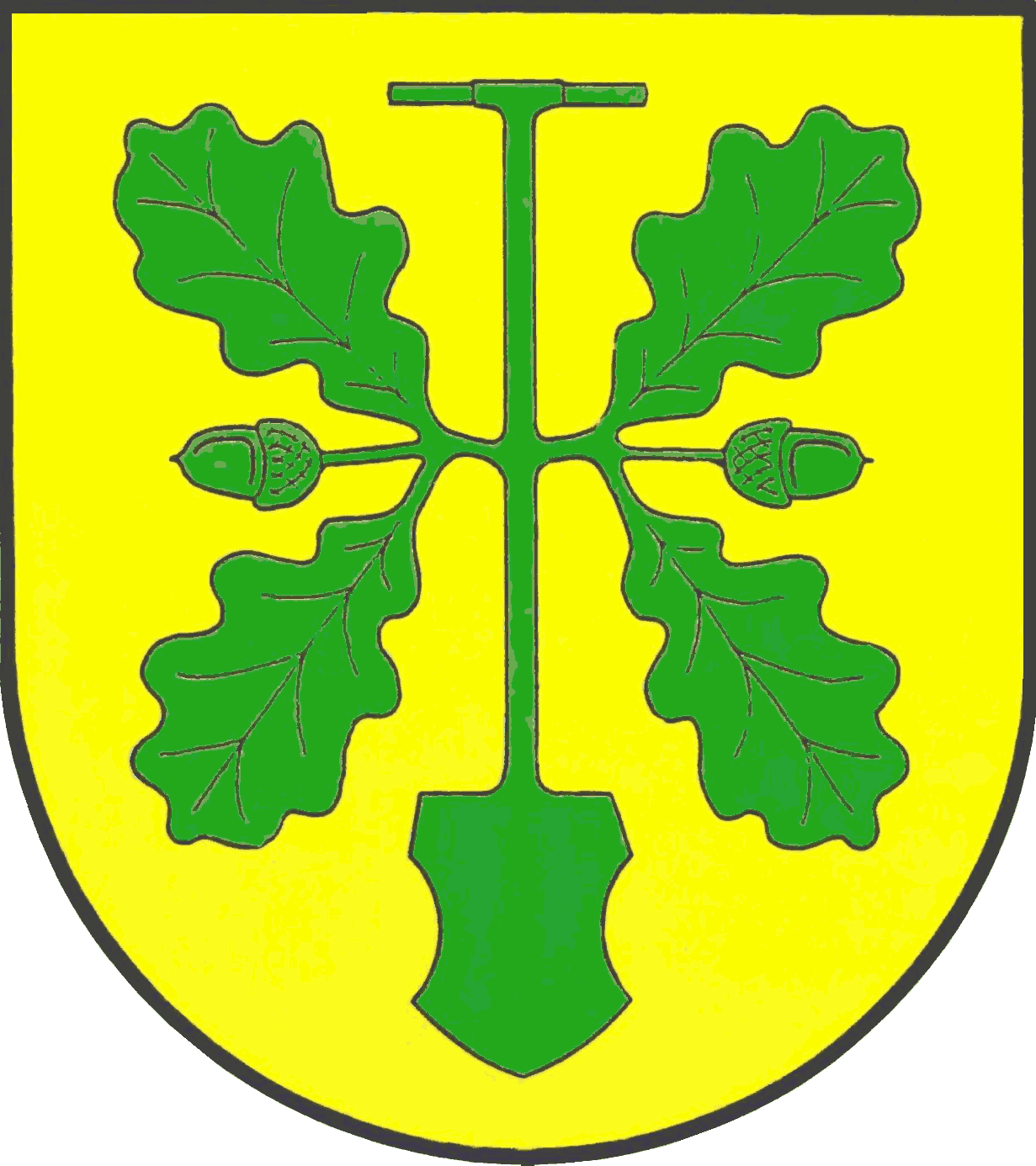 Coat of arms of the former municipalitie Jarplund-Weding in Schleswig-Holstein, Germany.